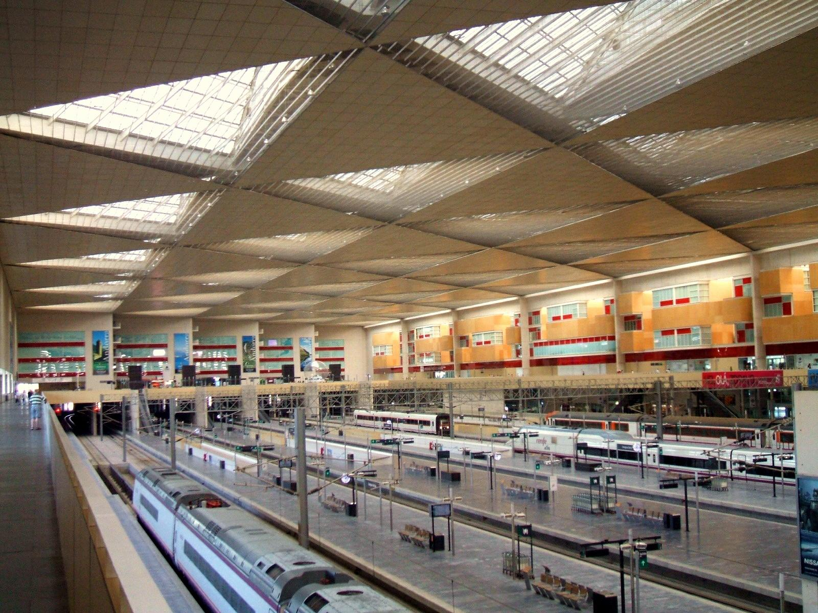 Zaragoza Delicias station